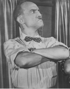 Pablo Palitos- actor argentino